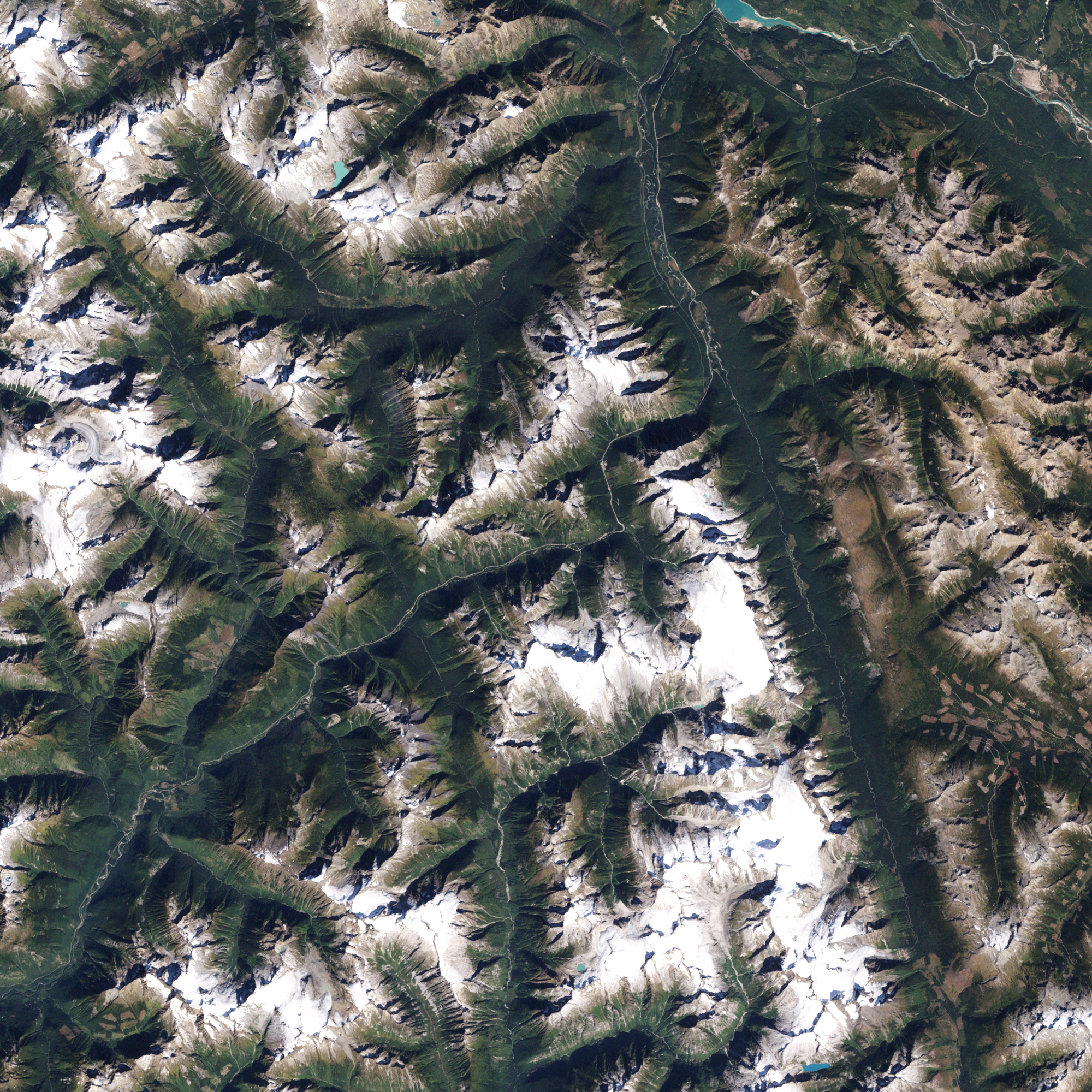 In this true-colour, photo-like image of Glacier National Park, the park appears predominantly in shades of green and white. In between richly vegetated valleys—one of which holds a major roadway—snowy white peaks cast long shadows toward the north. The Trans-Canada Highway passes through the park, appearing as a pale grey line.